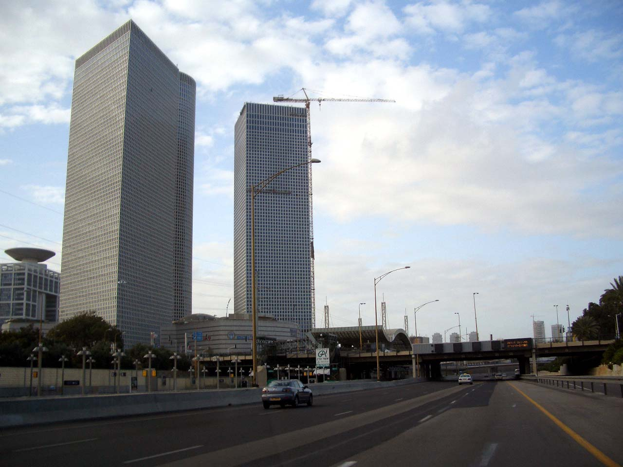 Ayalon Freeway on a Saturday afternoon.